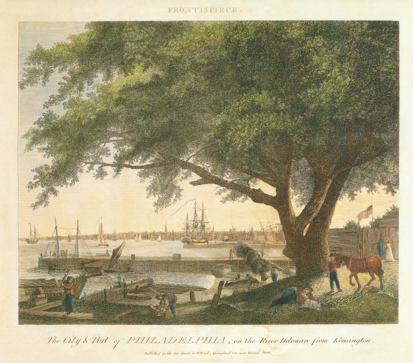 "The City & Port of Philadelphia, on the River Delaware from Kensington." Plate 2 (Frontispiece) from The City of Philadelphia as it appeared in the Year 1800. Published by W. Birch, Springland Cot. near Neshaminy Bridge on the Bristol Road; Pennsylvania. Decr. 31st 1800.